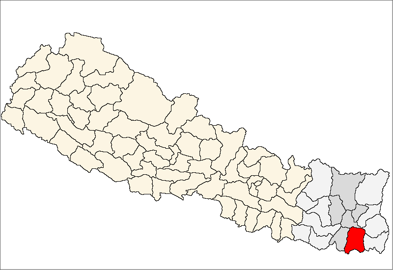 FrenchCarte de localisation dudistrict de Morang(wp-FR),au Népal (wp-FR).EnglishLocation map ofMorang District(wp-EN),in Nepal (wp-EN).